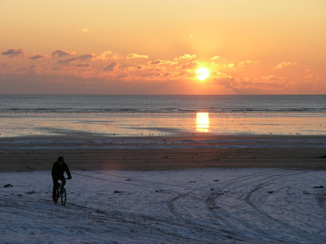 Sunset over Cefn Sidan beach This wintry scene has several layers of terrain represented. In the foreground lies a moderately thick layer of snow. Then a small strip of sand where the tide has cleared the snow. The next reflective area is the most interesting a layer - frozen sea water, which froze as the tide receded!